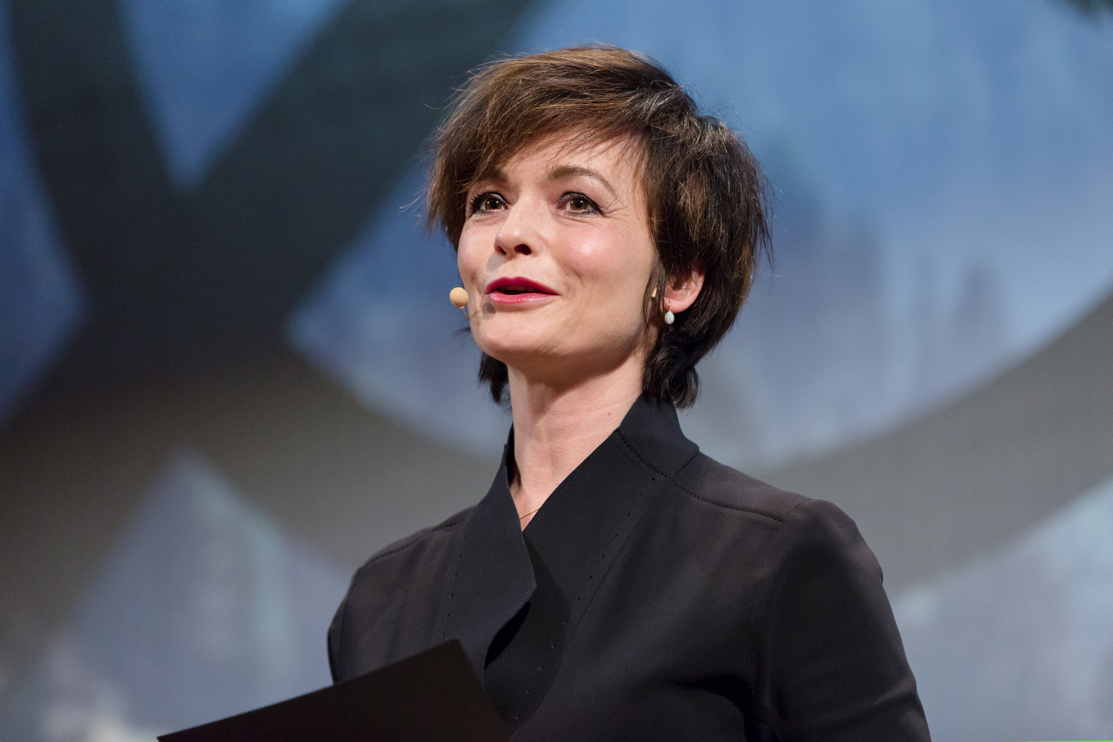 Katharina Stemberger at "Stimmen für Van der Bellen" ("Voices for Van der Bellen"), an event by artists supporting him at the Austrian presidential election 2016 (Konzerthaus, Vienna, Austria).